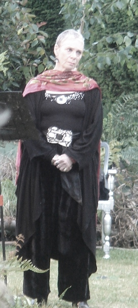 Sara Kestelman performing at A Breath of Fresh Air (by the Chiltern Shakespeare Society) on the 17 June 2008. Taken by me (Adaircairell (talk) 23:30, 16 June 2008 (UTC)),medium quality.